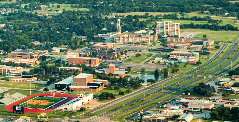 Aerial shot of TAMUC